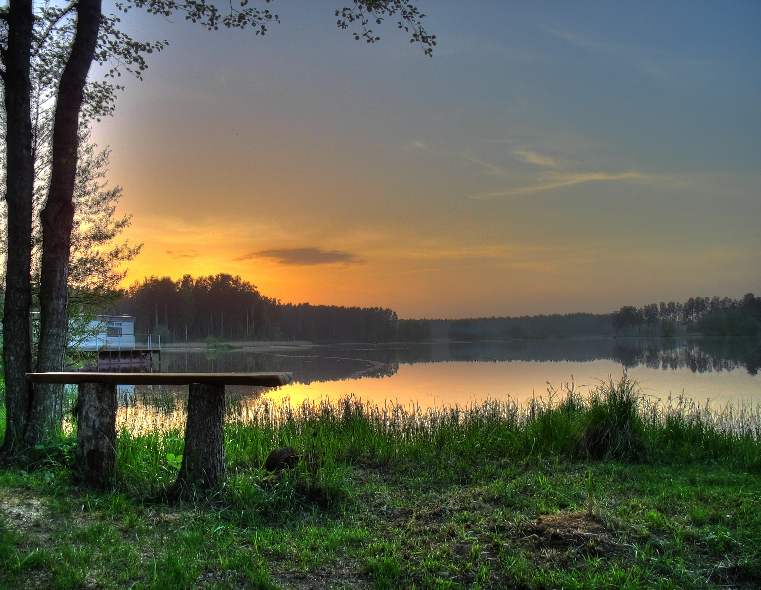 Maybee a glass of beer? ;)